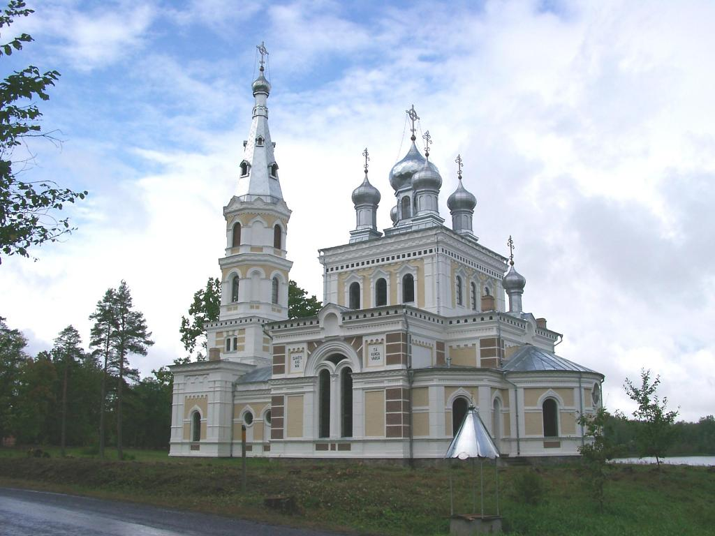 Stāmeriena Alexander Nevsky Orthodox ChurchLatviešu: Stāmerienas Aleksandra Ņevska pareizticīgo baznīca